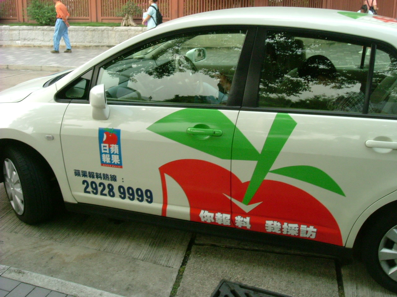 A newsvan of Apple_Daily in Hong Kong